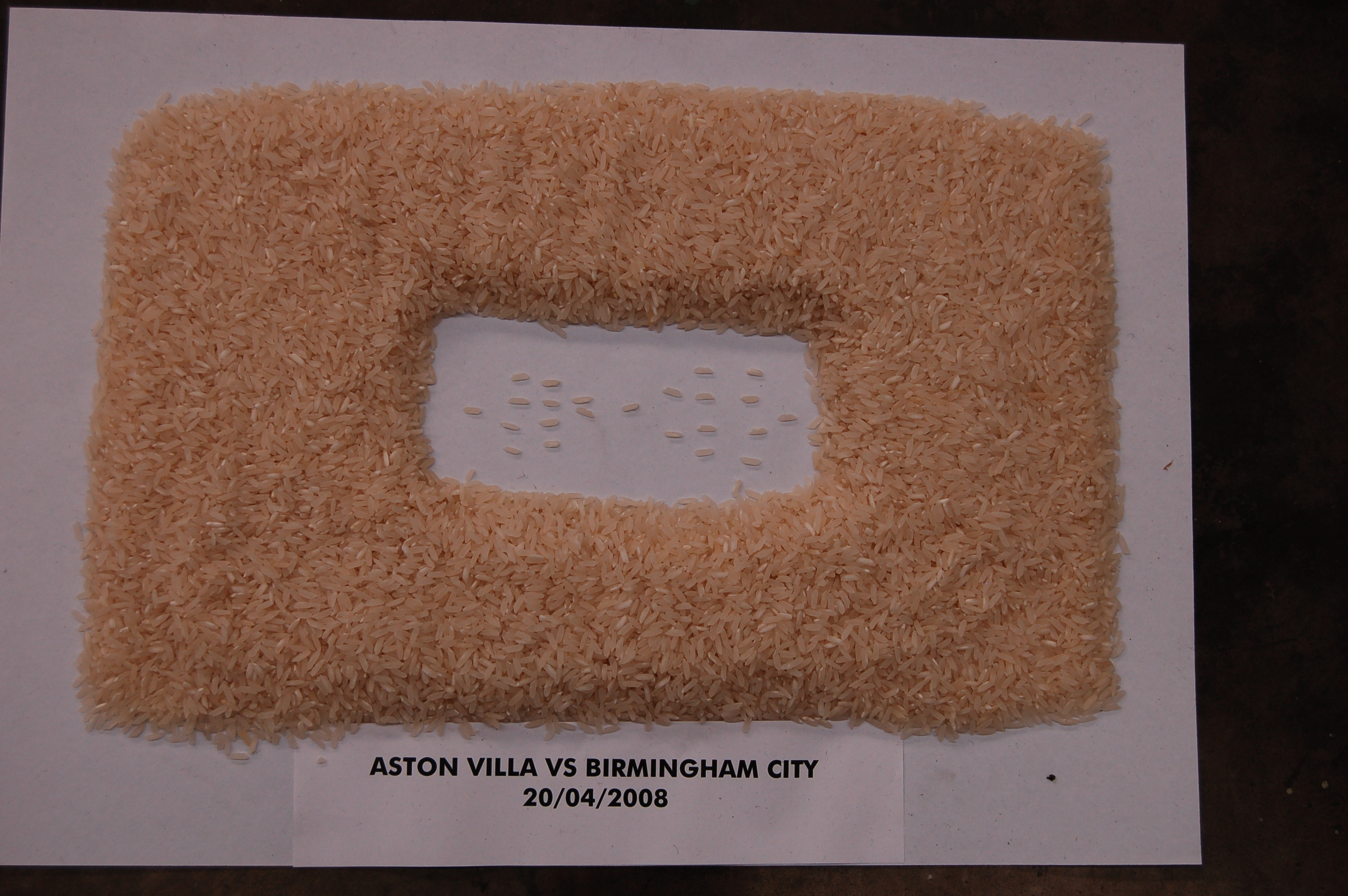 Stan's Café's 'Of All The People In All The World' is a show where there is a grain of rice for every person on the planet. That's a lot of rice. A.E. Harris Factory 110 Northwood Street Birmingham B3 1SZ